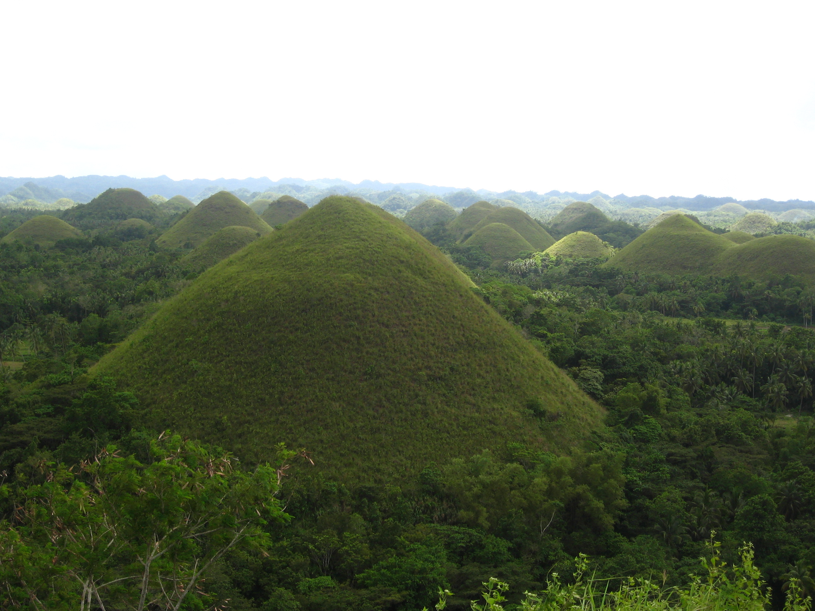 Chocolate Hills in Bohol